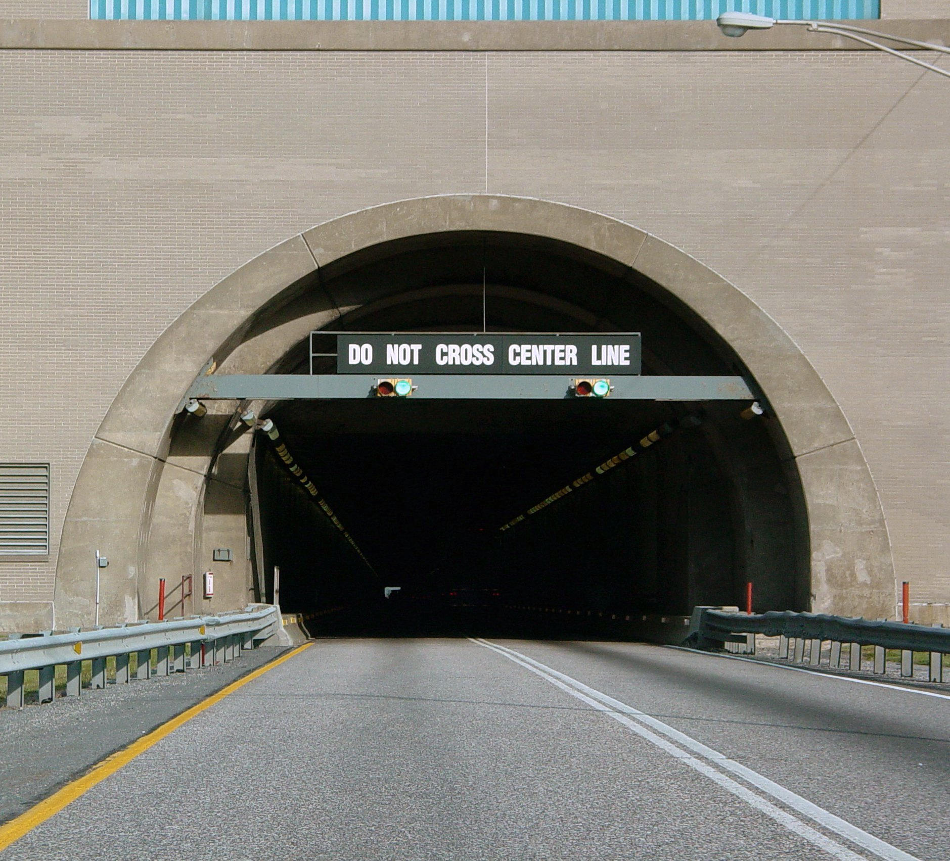 Western portal of the Blue Mountain Tunnel on the Pennsylvania Turnpike.